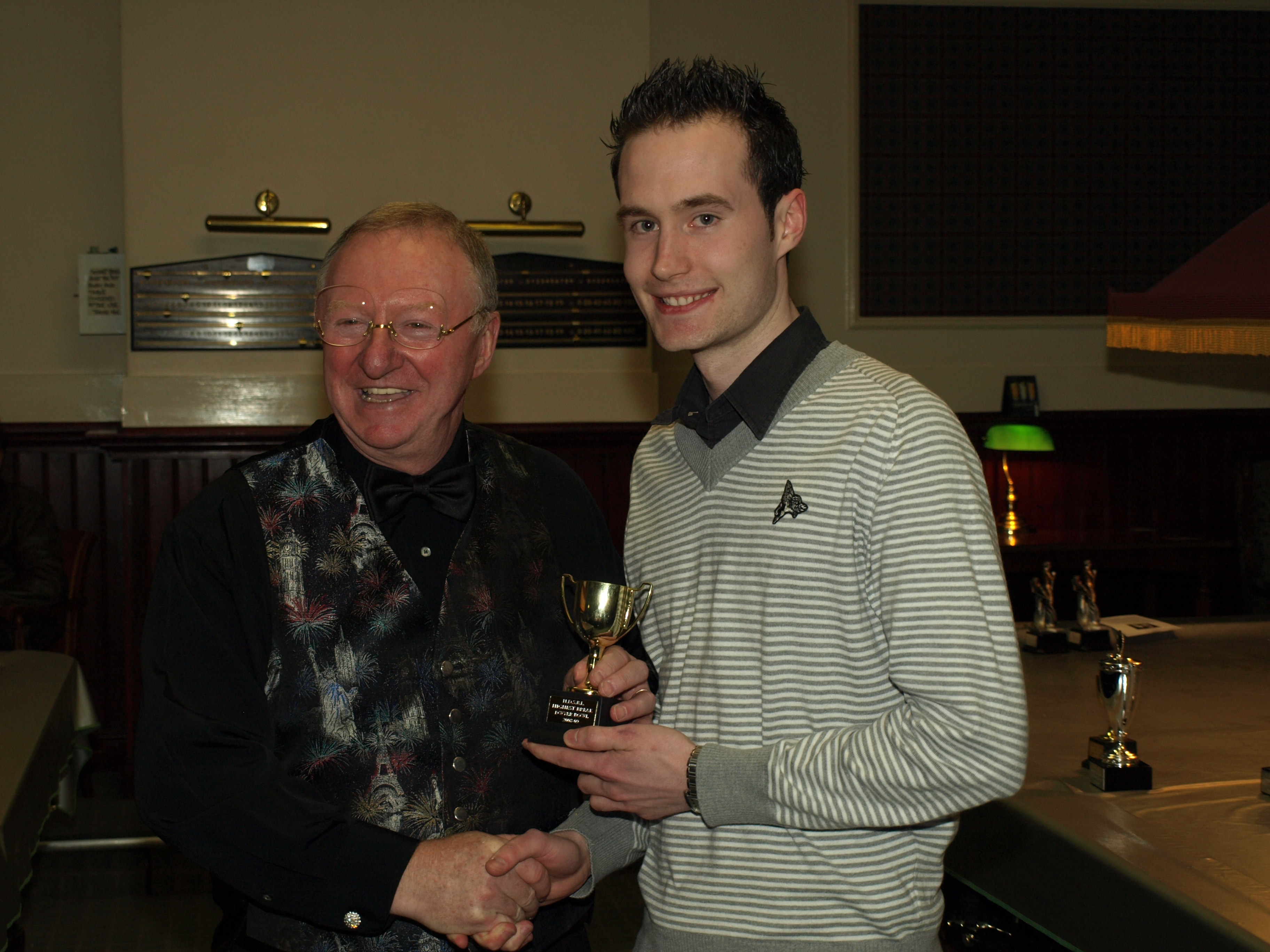 Dennis Taylor and Martin O'Donnell at the Harrow Snooker Club on 16 May 2009